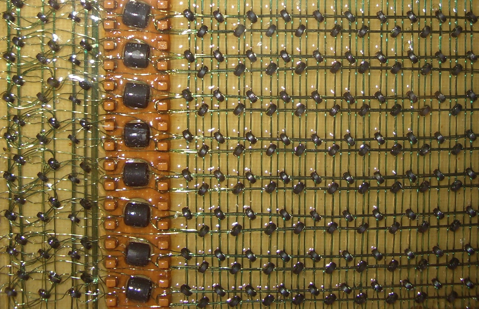 One of the core memory boards hanging in our office collection… the industry standard for computer memory in the 1960’s. Here you see 18 bytes of memory in 2x3 inches, where each hand-woven ferrite ring can be individually magnetized or not, representing 1 or 0. Until I took this macro zoom shot, I had not noticed the unusual wiring for the cores on the left. The wiring on the right is standard to core memory arrays (to read and write a magnetic bit to the iron core at the intersection of a particular row and address line). The core memory arrays would often have parity bits for each data row (for error detection). Perhaps the wiring on the left implements a parity operation. It has repeating loops across pairs of rows. Does this look familiar to anyone? (The only marking on the 7x9” board is Xak 4292. It has 300 bits in the memory array, with 15 pairs of rows with 10 ferrite cores in each row.)